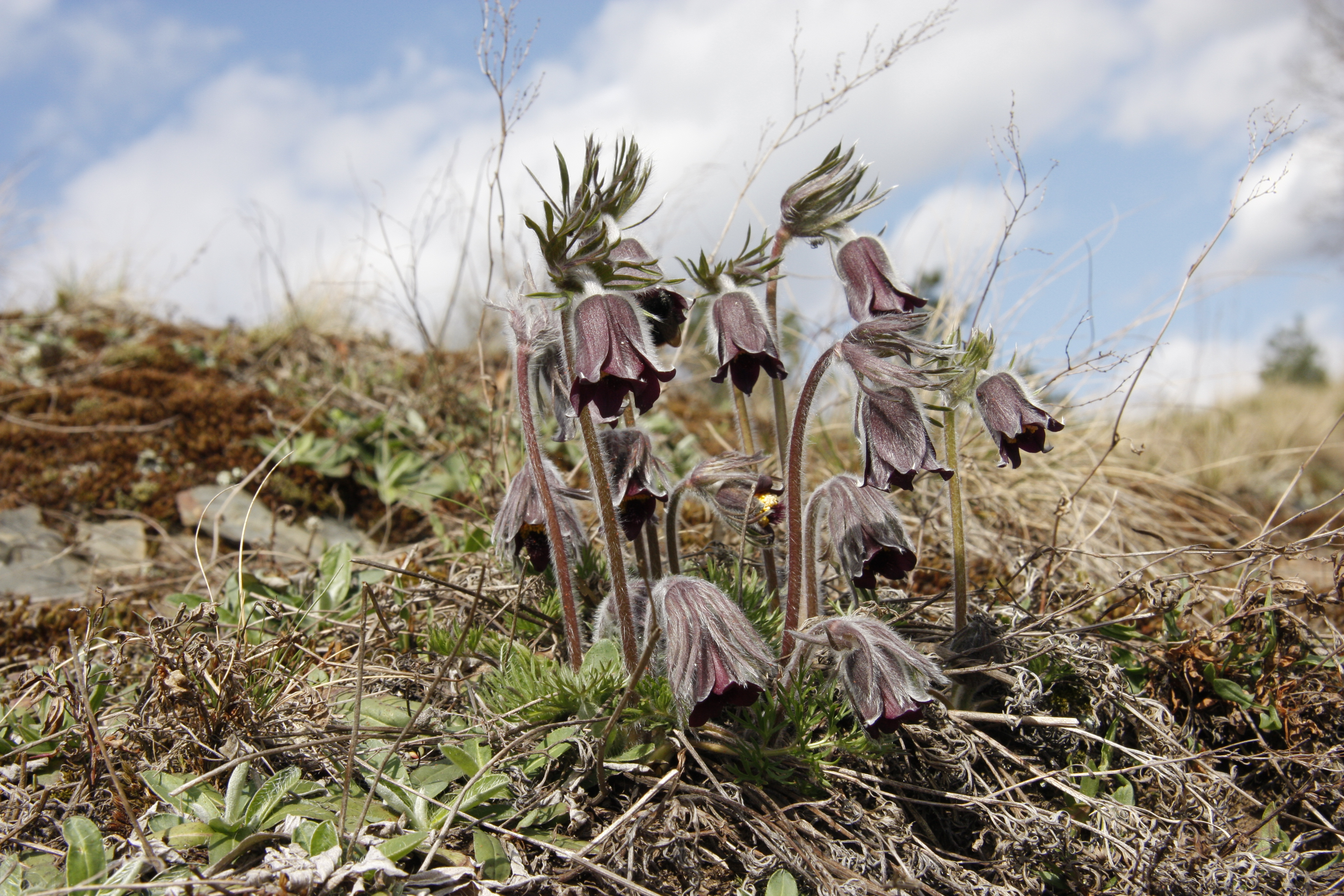 Pulsatilla pratensis subsp. nigricans in natural monument Pitkovická stráň in Prague, Czech Republic